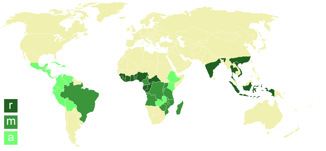 Map of production r: cultivation of Coffea robusta m: cultivation of Coffea robusta and Coffea arabica. a: cultivation of Coffea arabica.